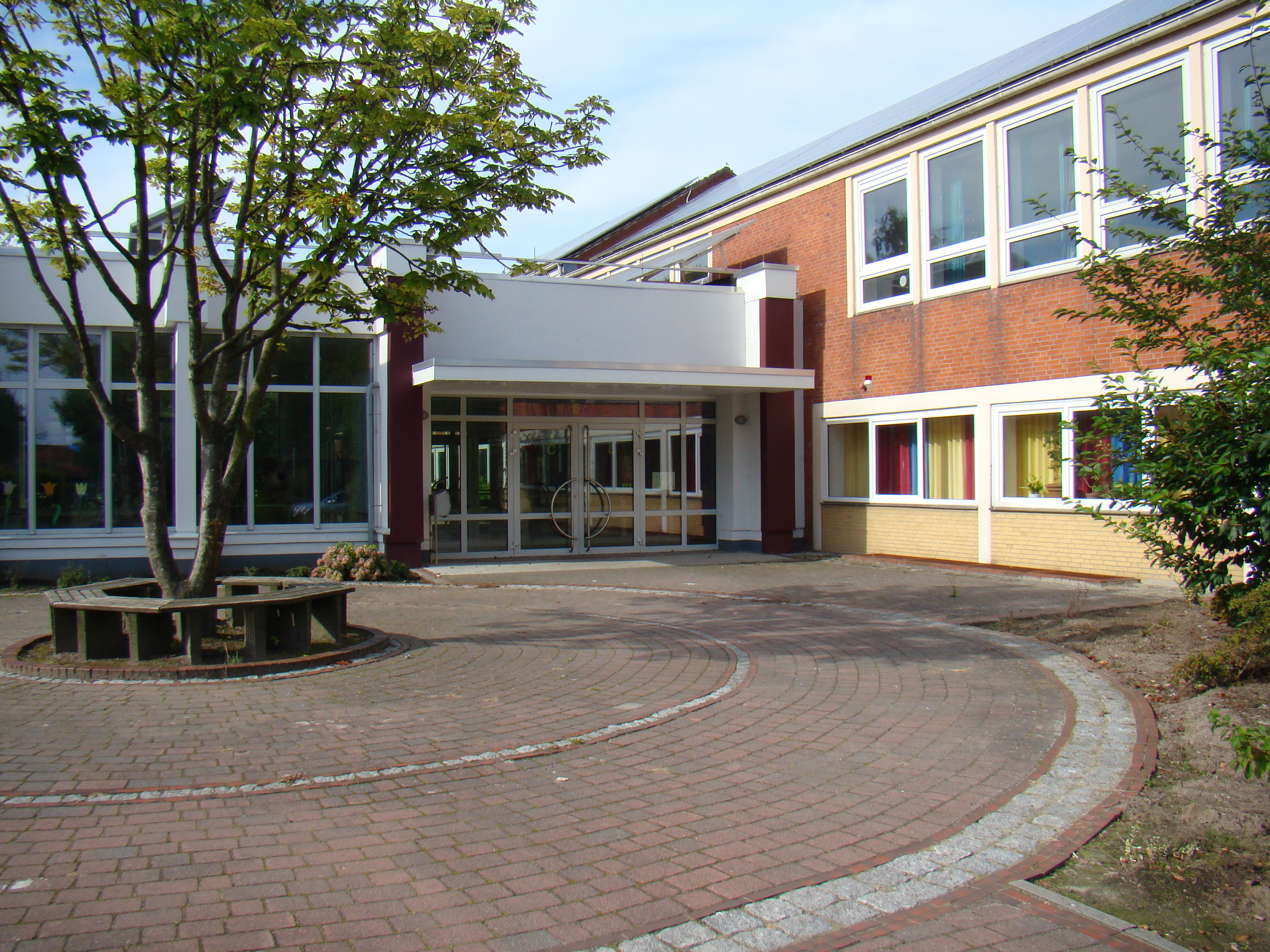 Exterior view of the elementary school in Jennelt.